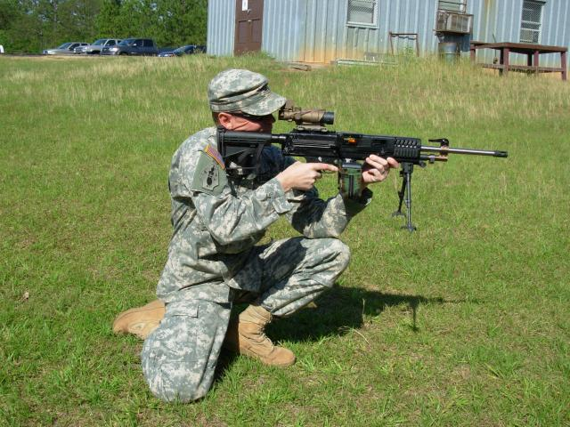 A soldier performs a test shooting of a prototype cased telescoped light machine gun.